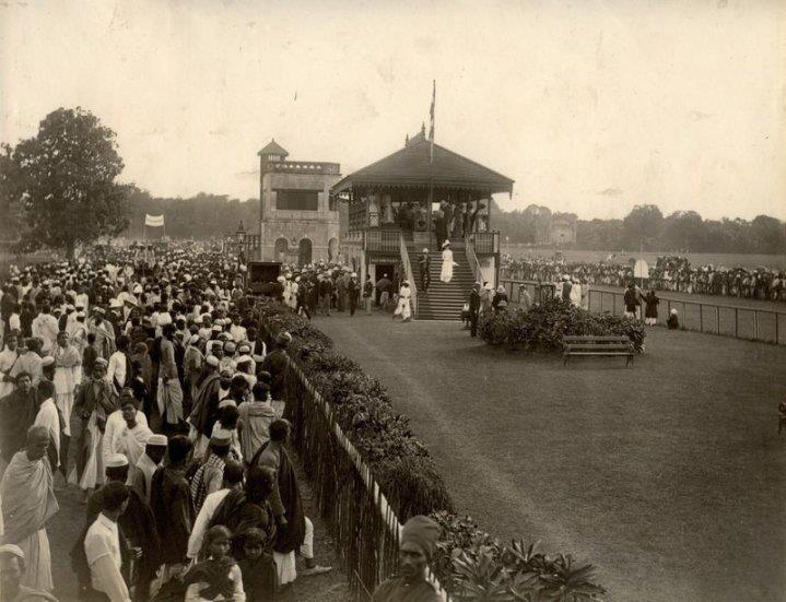 Race cource, Dhaka. (1890)